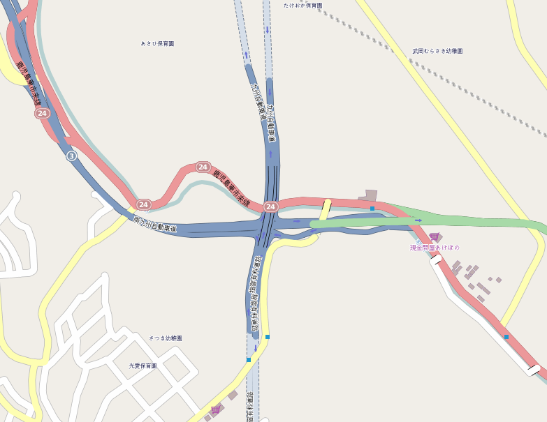 OSM map of Kagoshima Interchange